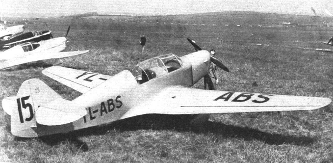 VEF J-12 in 1939